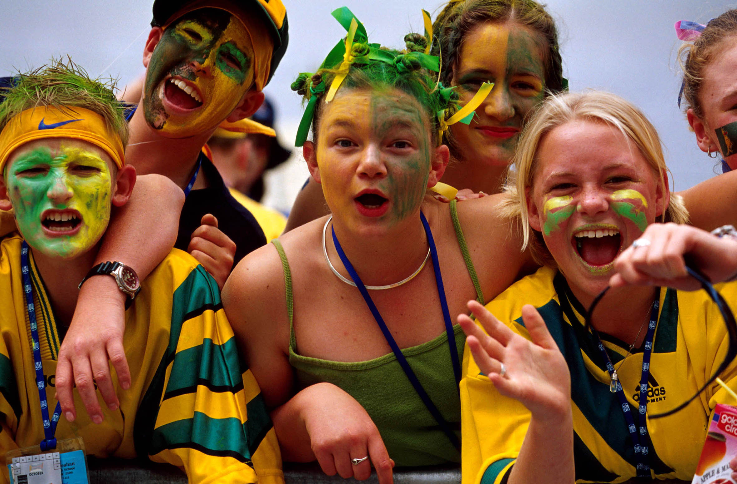 Image of excited school children in the audience cheering and supporting Australia at the 2000 Sydney Paralympic Games: a group of young fans dressed up in green and gold face makeup, zinc, hair dye and clothing.